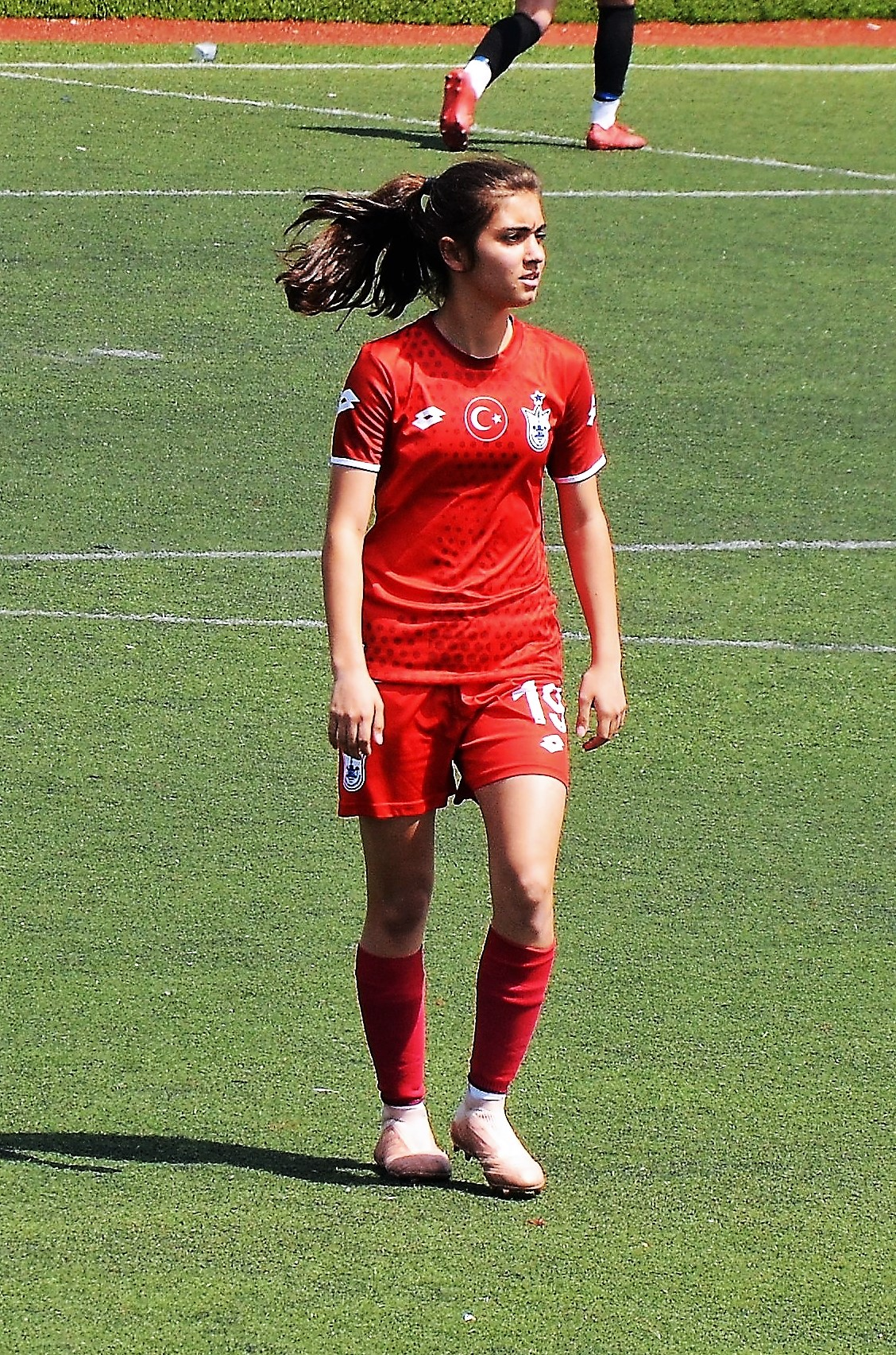 Cansu Gürel of Konak Belediyespor in the 2018-19 Turkish Women's First Football League.